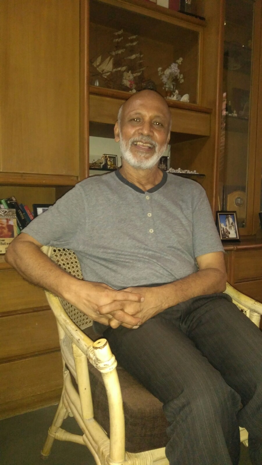 Photograph of Apurba Kishor Bir taken on 15th June 2016 at his residence